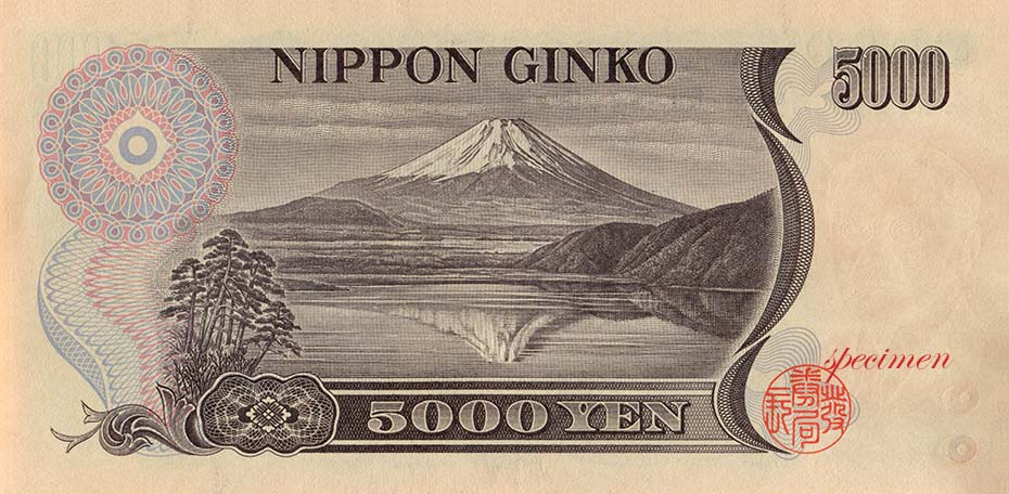 Series D 5000 Yen Bank of Japan note. Lake Motosu and Mt. Fuji. First issued in 1984. Issue suspended in 2007. Legal tender. 155mm x 76mm.